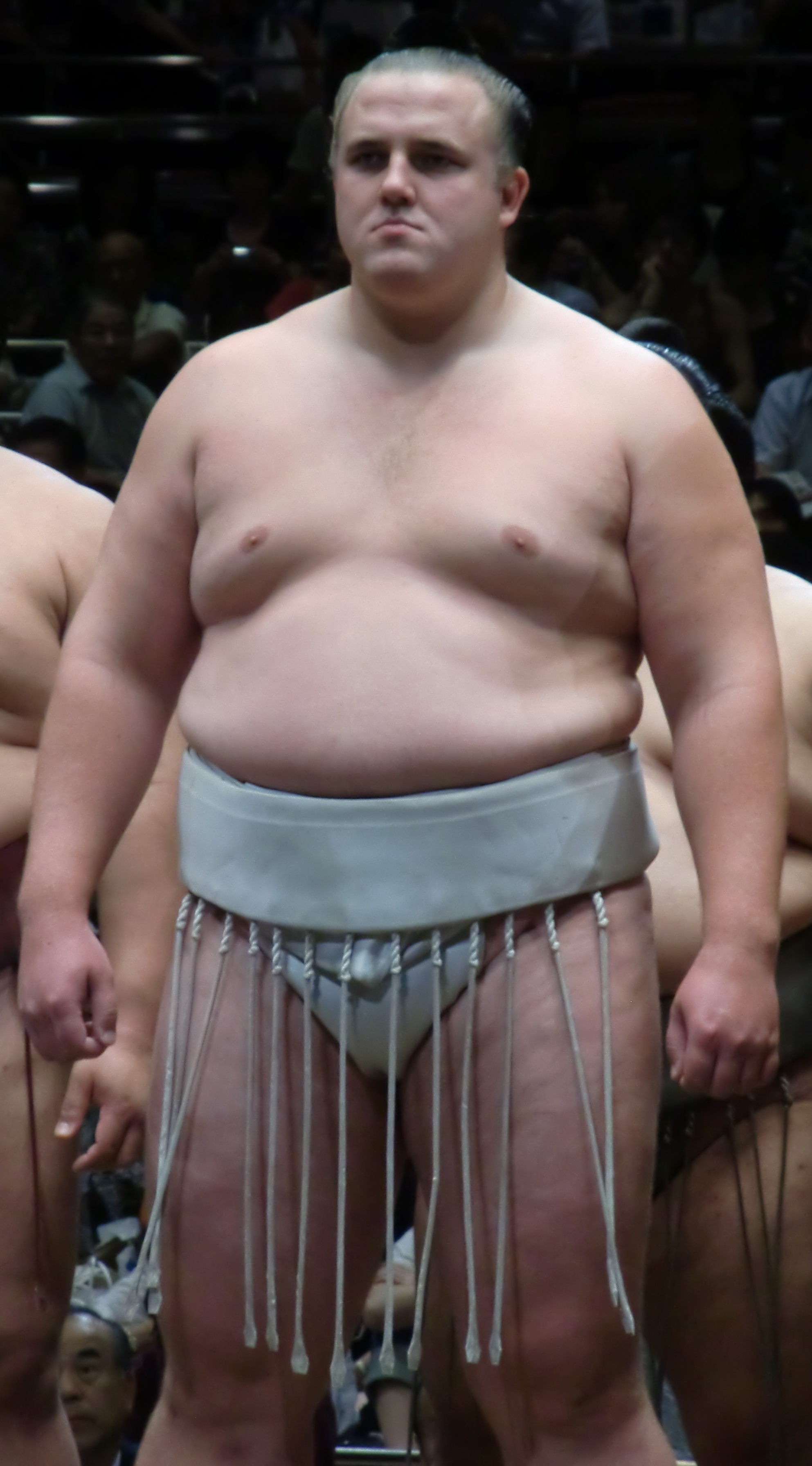 taken at 2011 Sep tournament